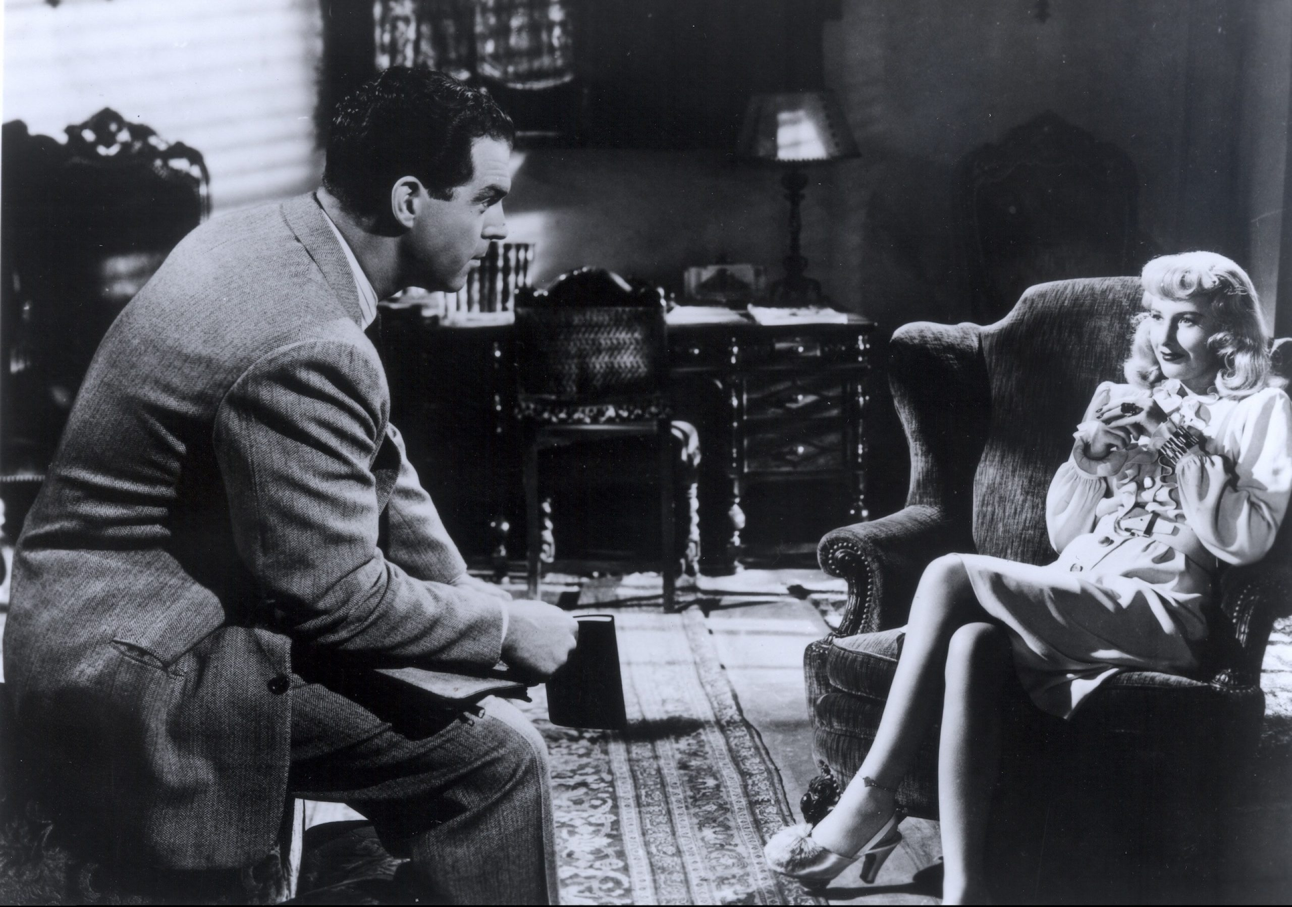 Promotional still from the 1944 film Double Indemnity